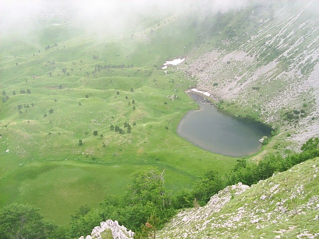 Gornje Bare lake in Zelengora mountains, BiH